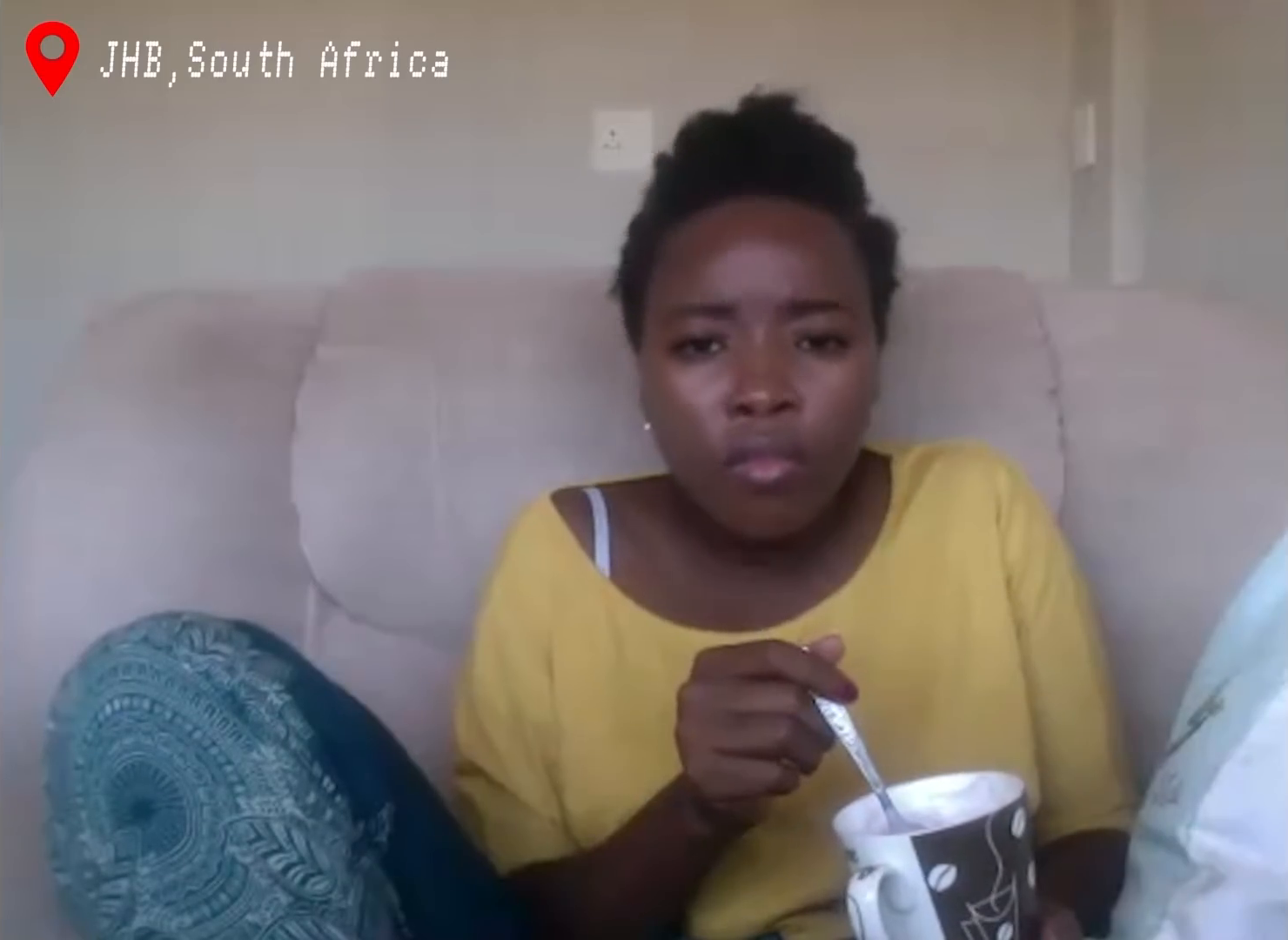 In MTV Shuga: Alone Together episode 7 there is an online conversation between Bongi (Mohau Cele)and Leila and then Bongi and Aunt N (Sthandiwe Kgoroge)